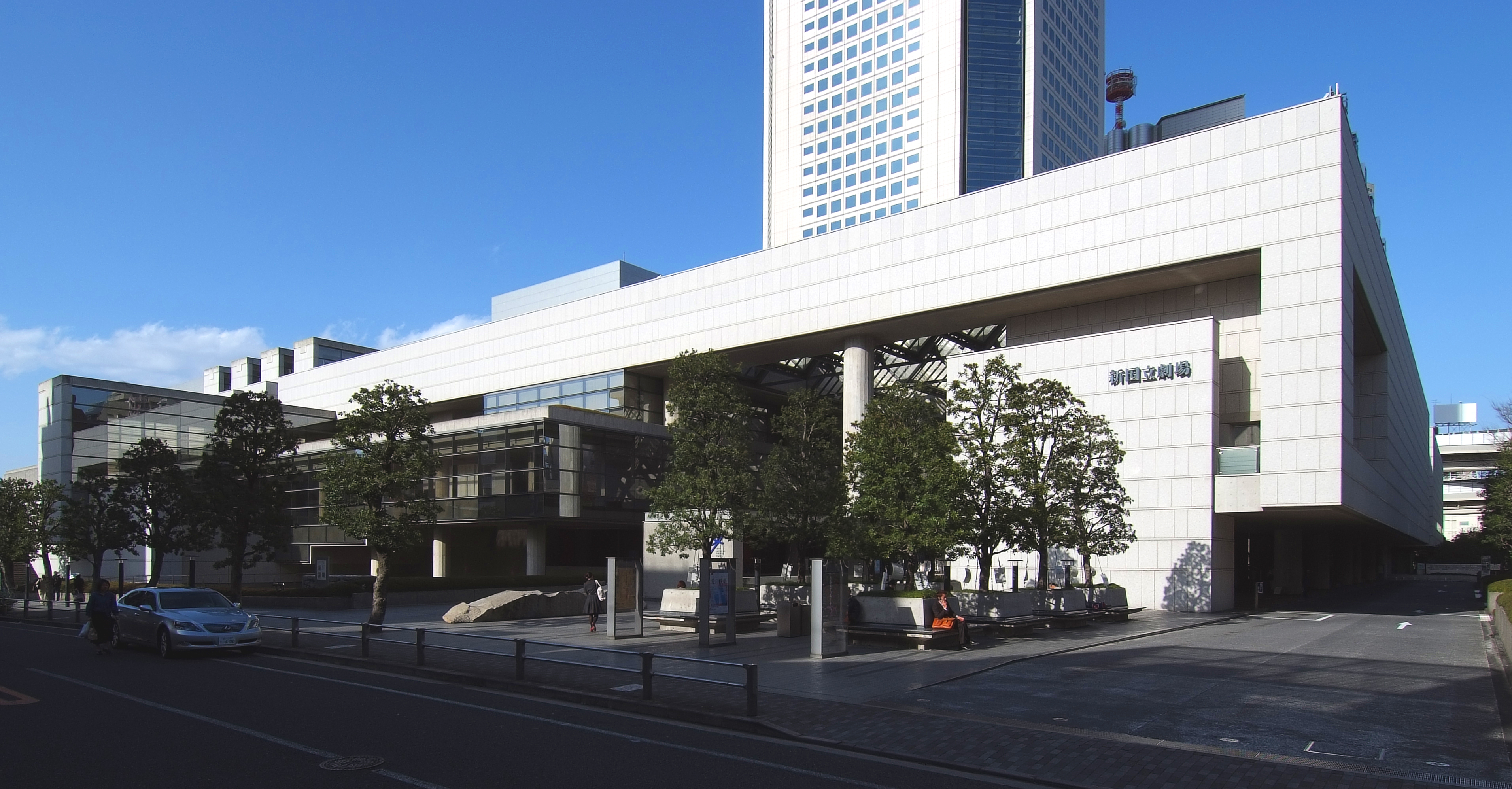 New National Theatre, Tokyo, at Shibuya-ku, Tokyo, Japan, designed by Takahiko Yanagisawa in 1997.